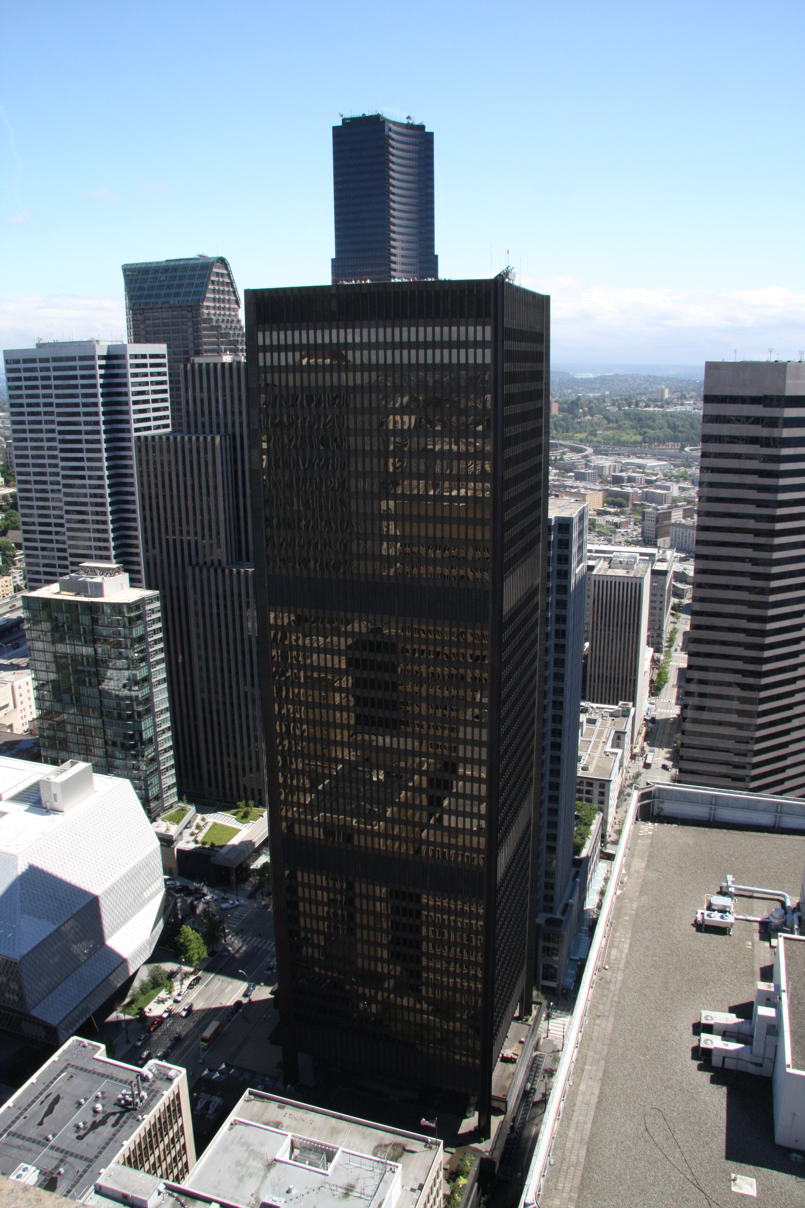 1001 Fourth Avenue Plaza, Seattle, Washington, originally the Seafirst Building, now Safeco Plaza